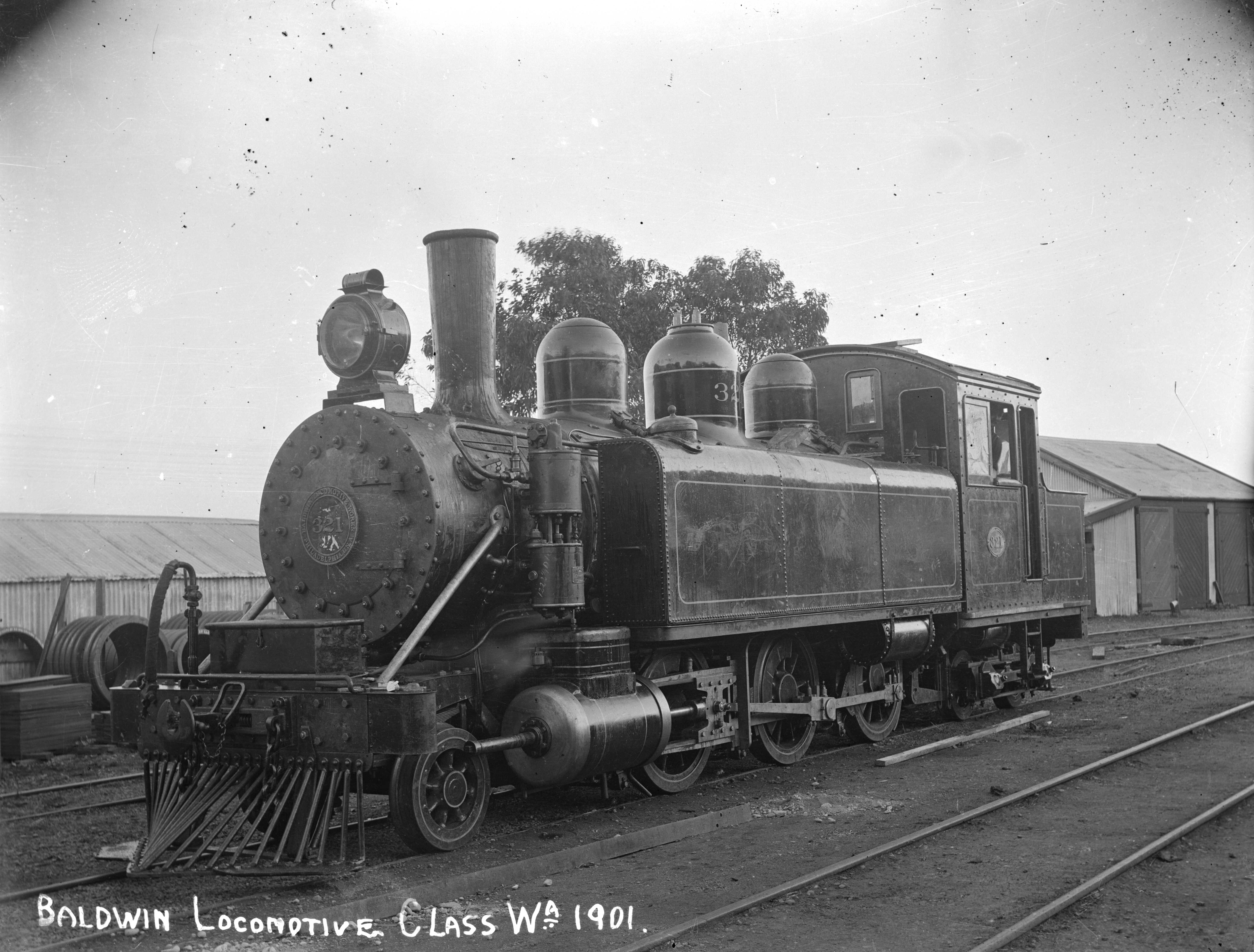 "Wd" 321, steam locomotive (2-6-4T type). Inscription on the negative reads "Class 'Wa'", this is incorrect, being class "Wd". See "Register of New Zealand Railways Locomotives, 1863-1971" by W G Lloyd. Photographed by Albert Percy Godber in 1901.